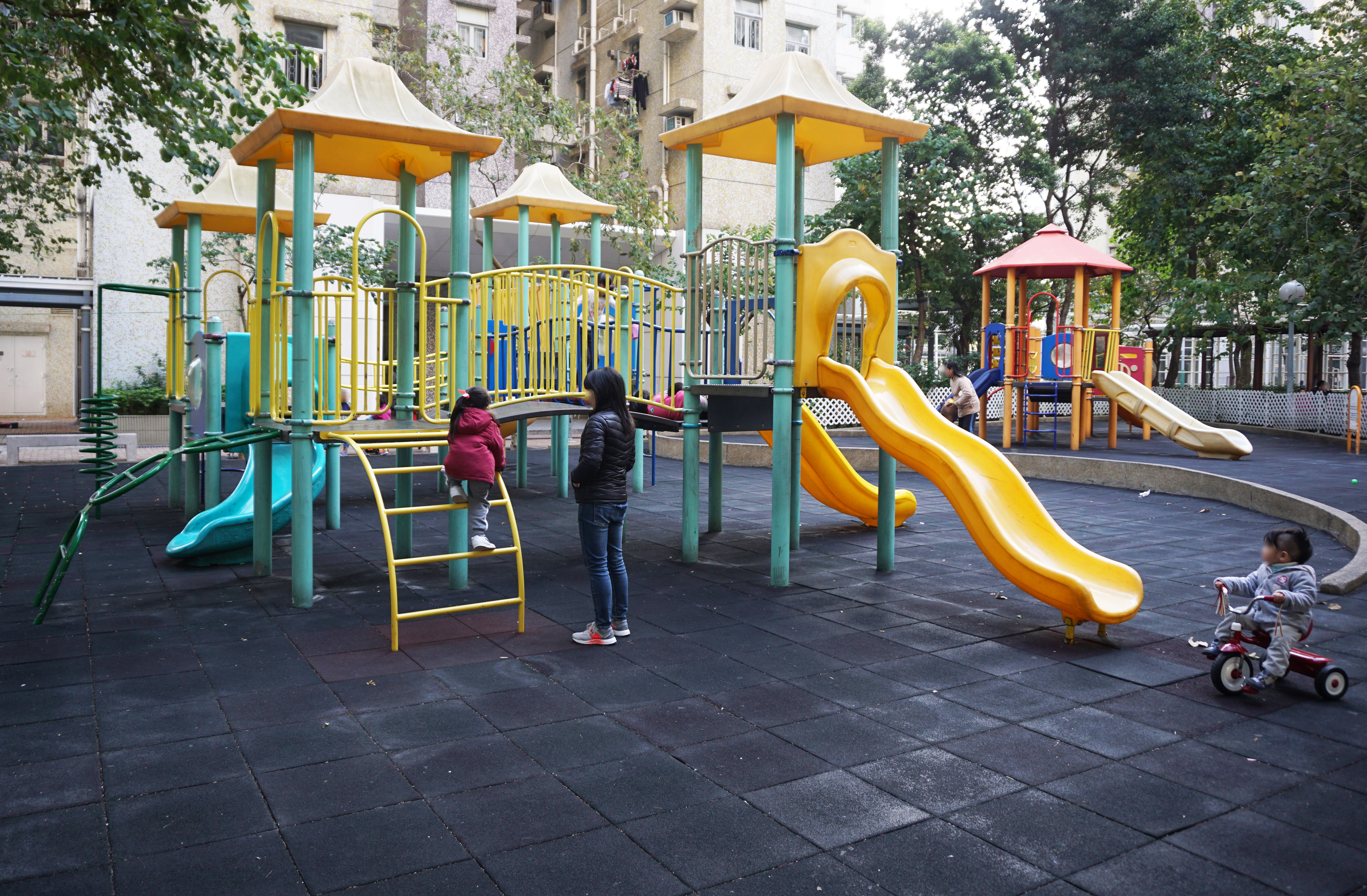 Rhythm Garden in San Po Kong, Hong Kong.